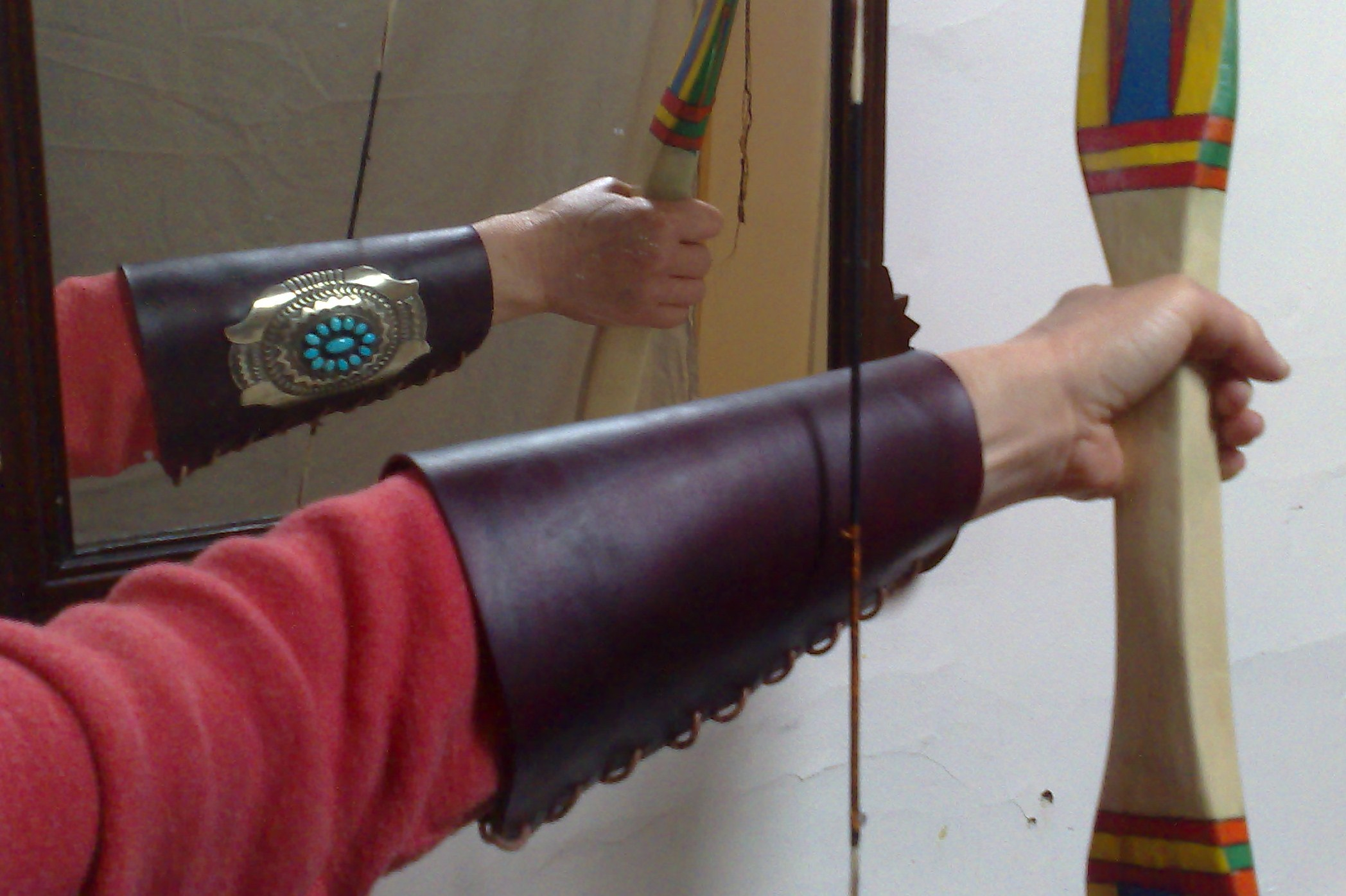 This is Marian's arm, holding a strung bow, with reflection. It is intended to show both the smooth functional surface of the armguard, and the ketoh ornamentation. The bow is decorated with West Coast style patterns.